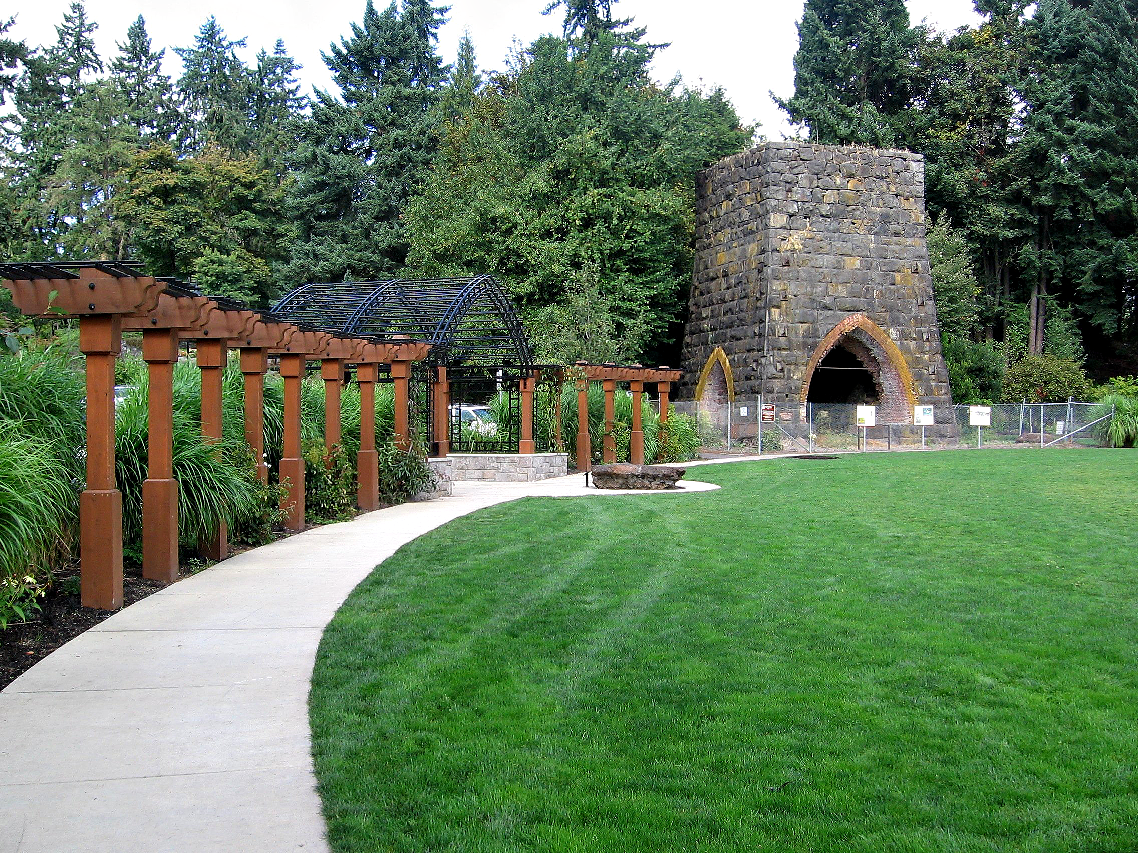 Ruins of the 19th century Oregon Iron furnace, George Rogers Park, Lake Oswego OR